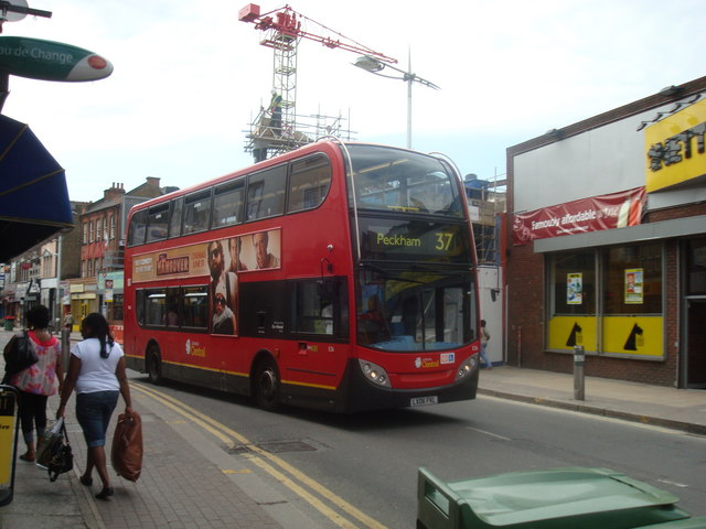 Rye Lane, Peckham, London SE15, near to Deptford, Lewisham, Great Britain.